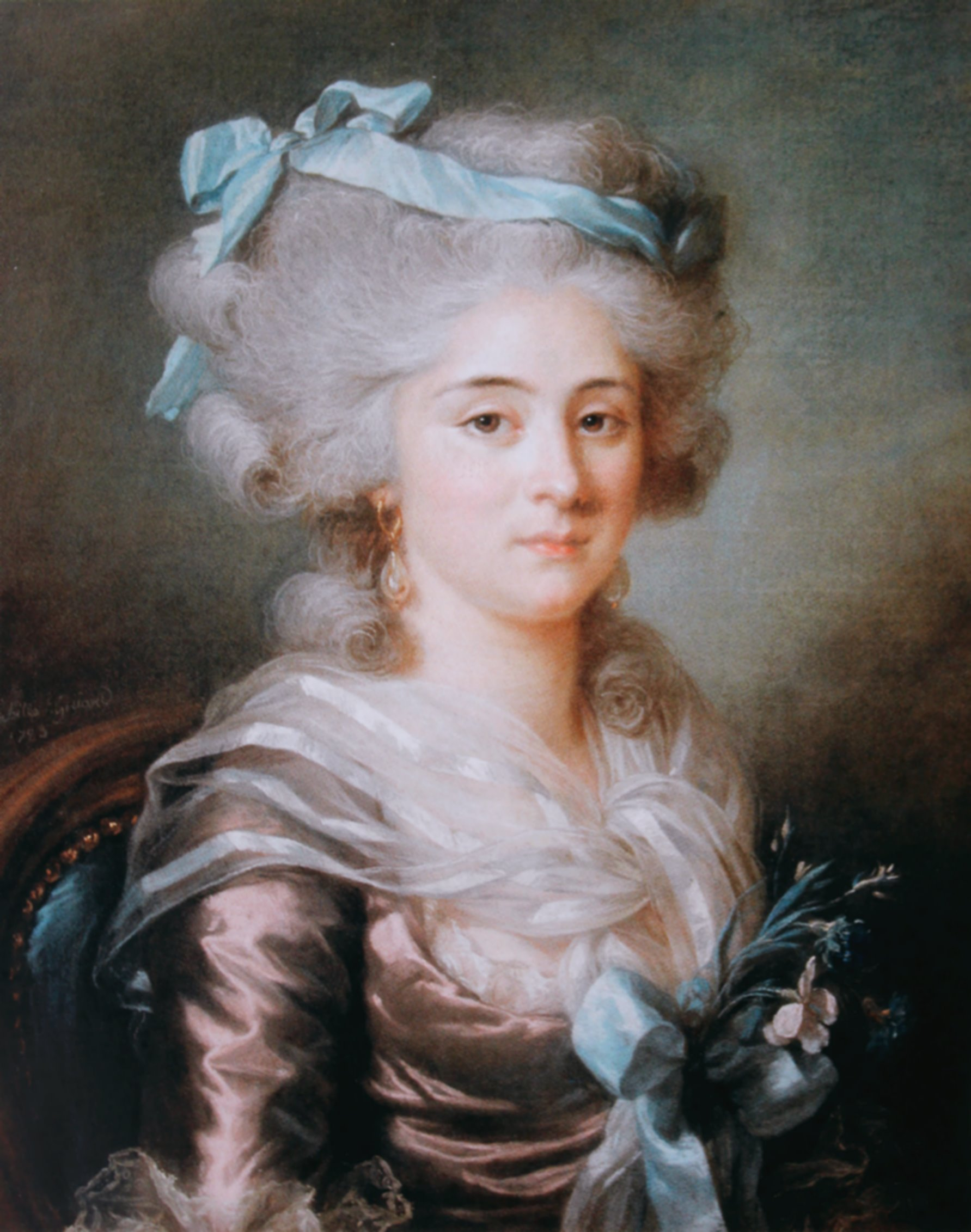 Flore Pajou was the daughter of Augustin Pajou and Angelique Roumier, married on 1781, at the age of sixteen, the sculptor Claude Michel, called Clodion. In 1794 she divorced from Clodion and married Louis-Pierre Martin, but after some year she divorced again for the second time. This portrait shows Flore Pajou at the age of eighteen.